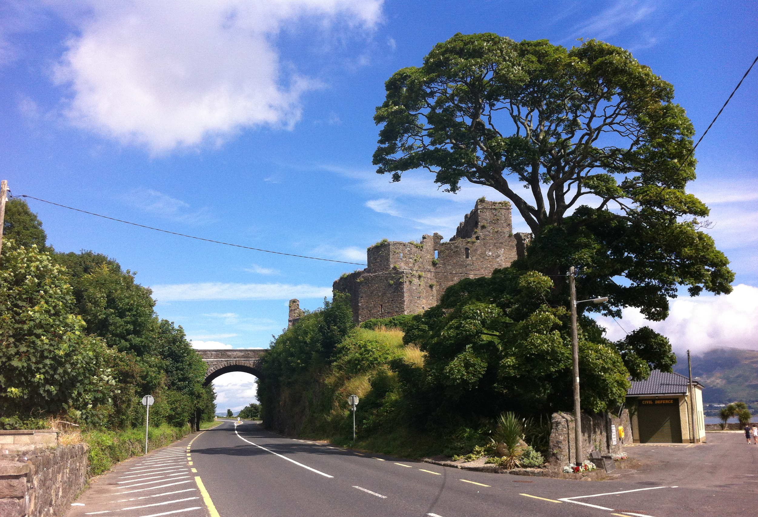 Carlingford Castle